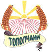 Coat of arms of the former Topolčani Municipality, Macedonia.